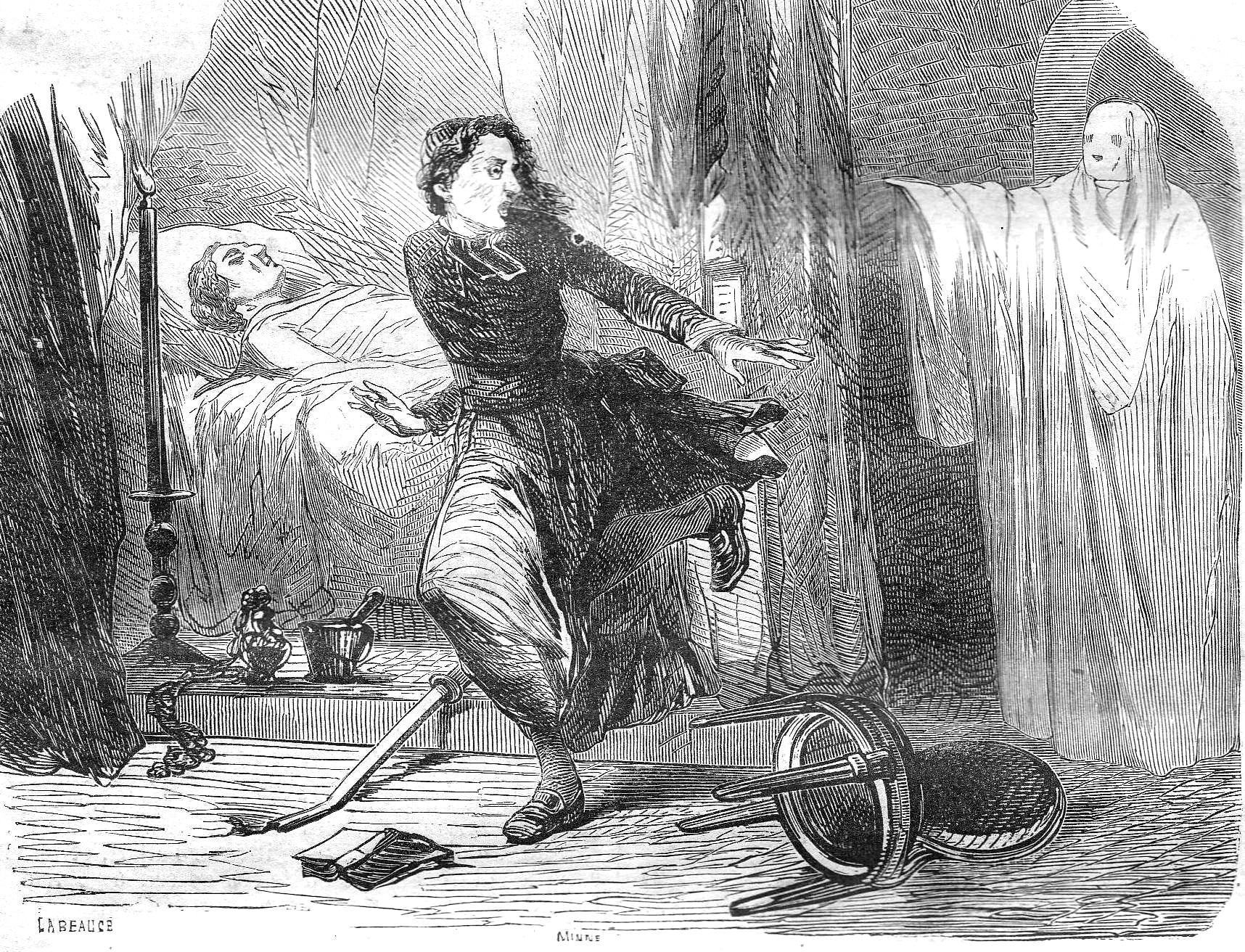 Ghost